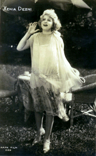 Xenia Desni's Postcard